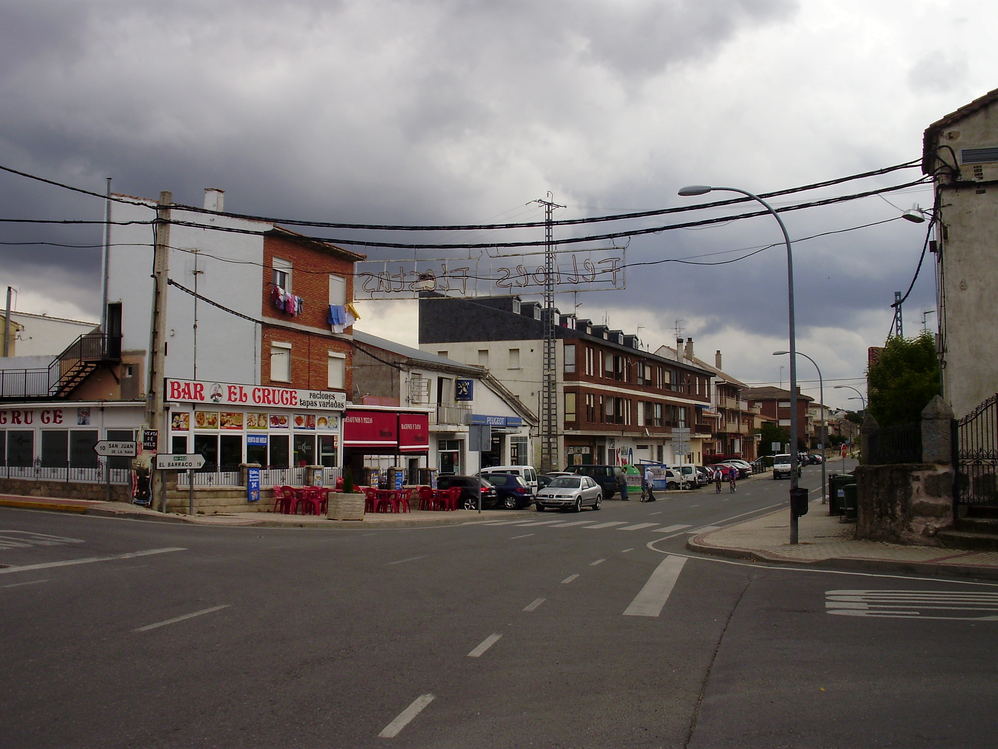 View of Navaluenga, Ávila, Castile and León, Spain.